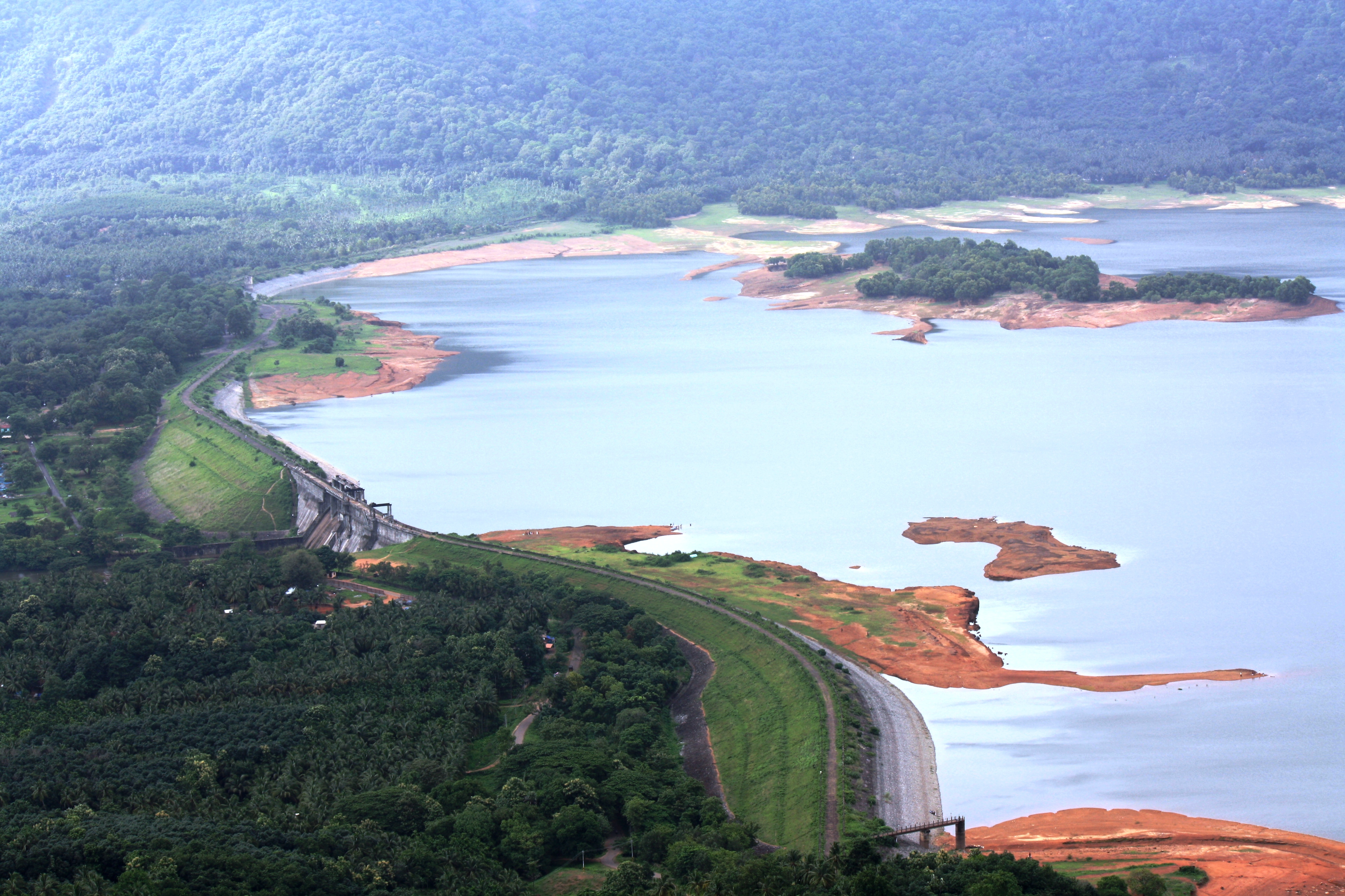 Kanjirapuzha Dam is situated near Mannarkkad. This is an earthern Dam constructed for the purpose of irrigation. Vakkodan Hill is adjacent to this Dam. This image is a view of the entire Dam from the top of Vakkodan Hill.